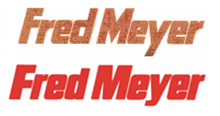 Logo of Fred Meyer